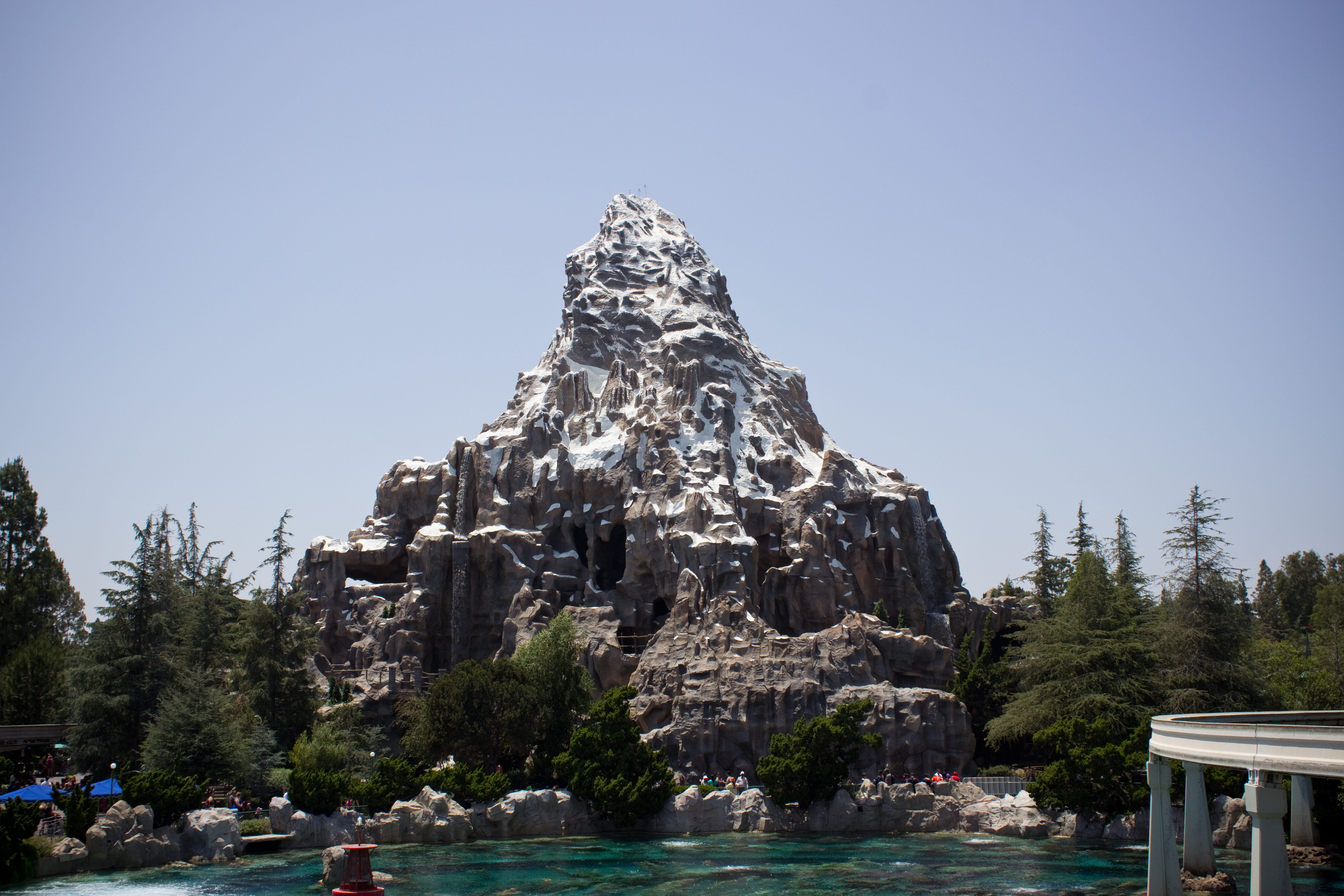 The Matterhorn as seen from the Tomorrowland monorail station in Disneyland.